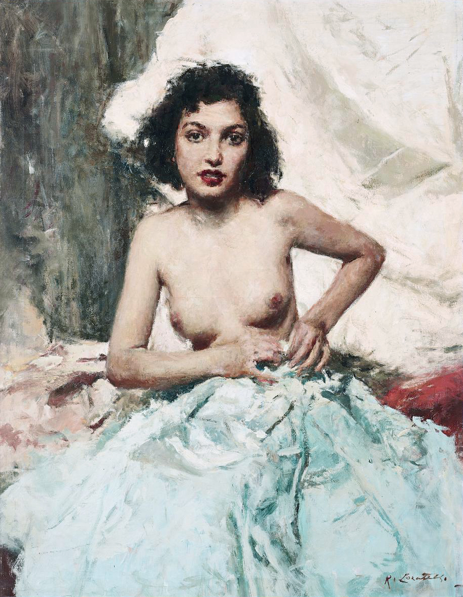 Risveglio oil on canvas 117.5 x 91 cm signed b.r.: R.Locatelli.